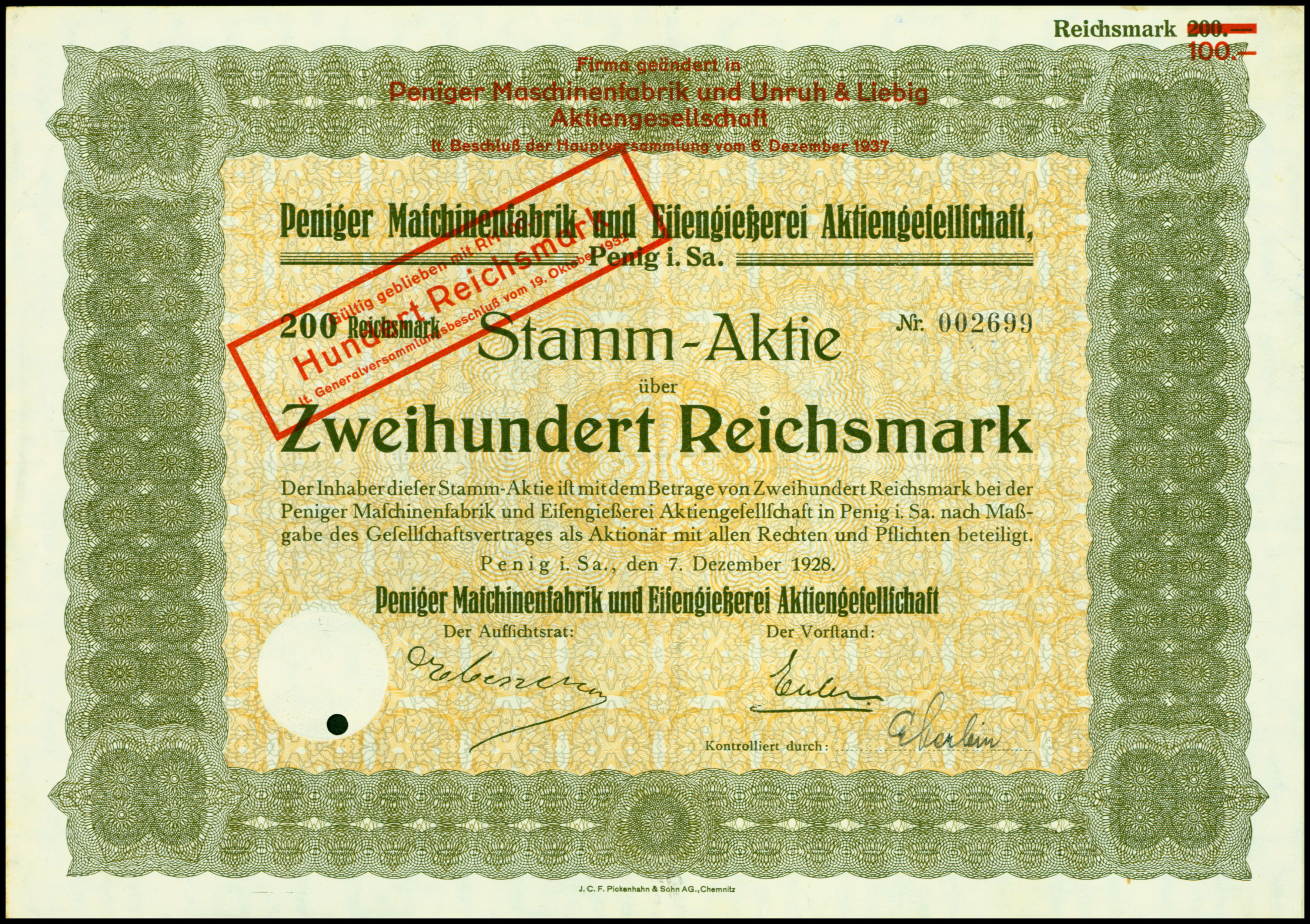 Share of the Peniger Maschinenfabrik und Eisengießerei AG, issued 7. December 1928